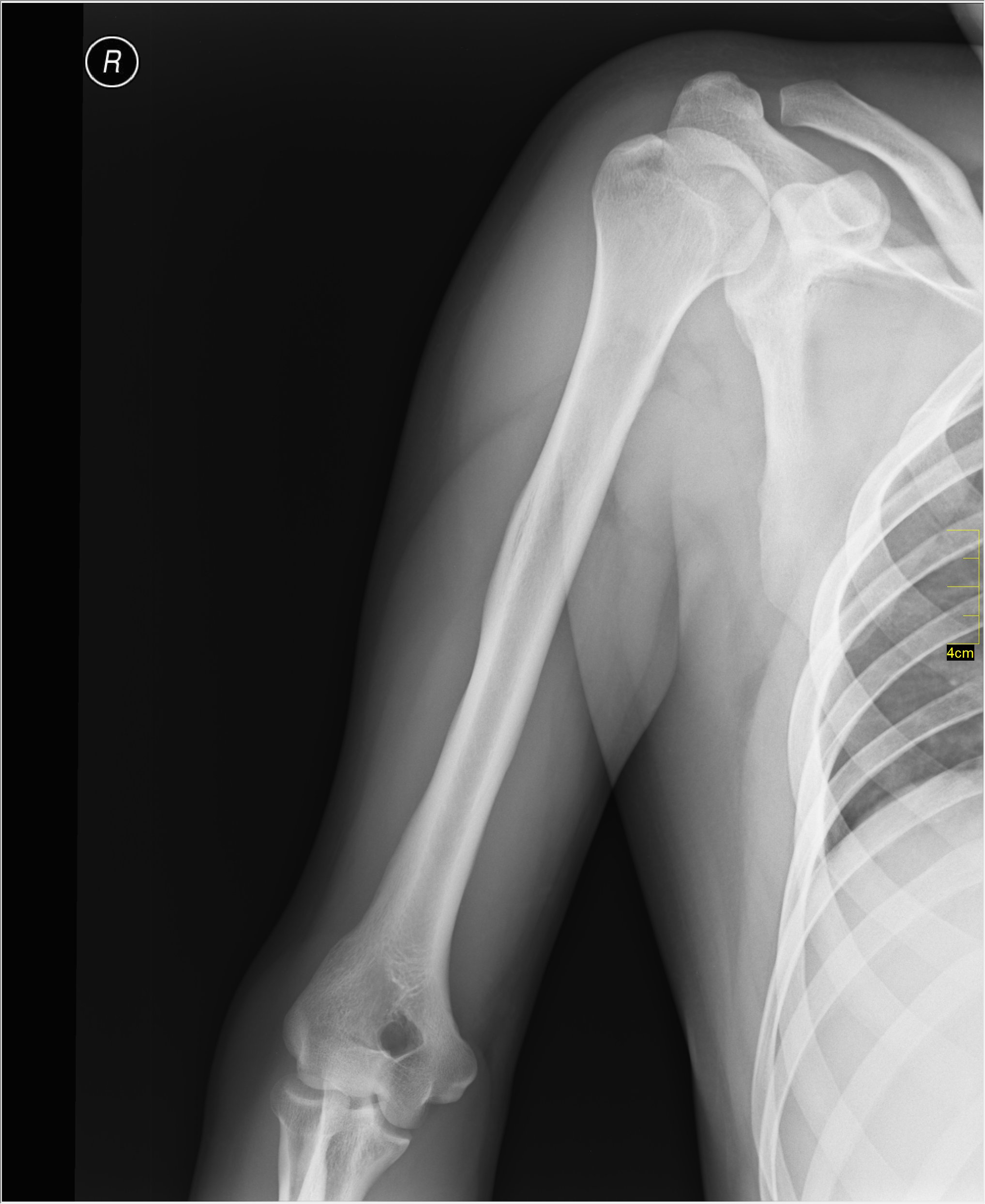 Medical X-rays. Image may not be to scale